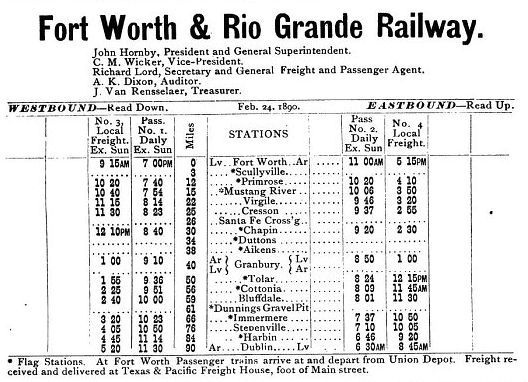 Fort Worth & Rio Grande Railway timetable (1890). This is in the public domain because it was first published in the following: Rose, John R.. The Texas Spring Palace., Book, May 1890; digital images, ( : accessed April 6, 2011), University of North Texas Libraries, The Portal to Texas History, crediting University of Texas at Arlington Libraries, Arlington, Texas.